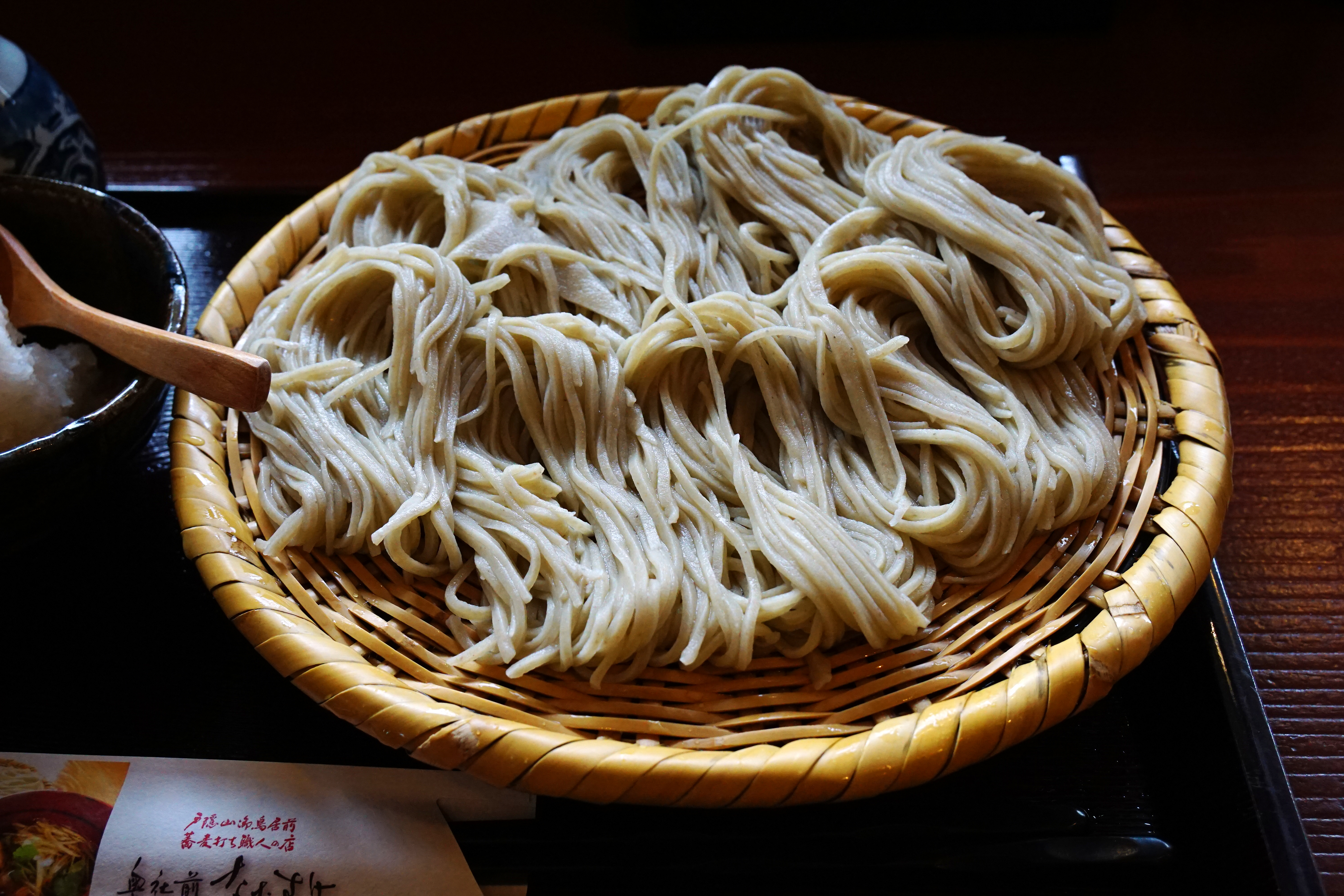 Togakushi soba at Togakushi, Nagano, Nagano prefecture, Japan.